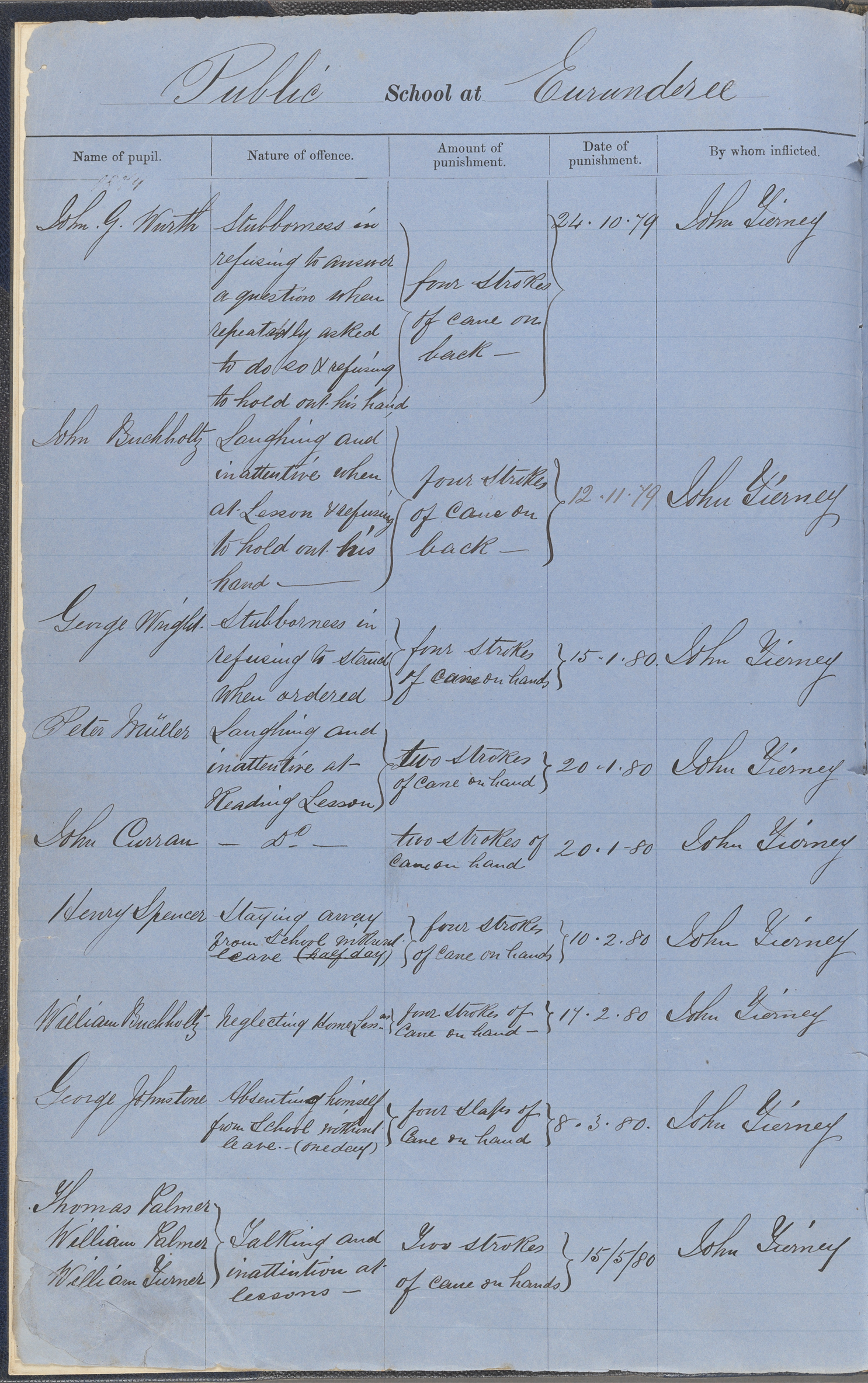 This archive is part of our new gallery celebrating the 50th Anniversary of State Records Although punishments at school have changed and corporal punishment is no longer allowed, we can see from the offences that children have not changed. This Punishment Book, from the school attended by Henry Lawson, is one of the earliest surviving examples of this type of record. It should be noted that there are no entries for Henry Lawson in this record. NRS 3931 Punishment Book Eurunderee, [4/7548] View on the Gallery » Rights: We'd love to hear from you if you use our photos/documents.